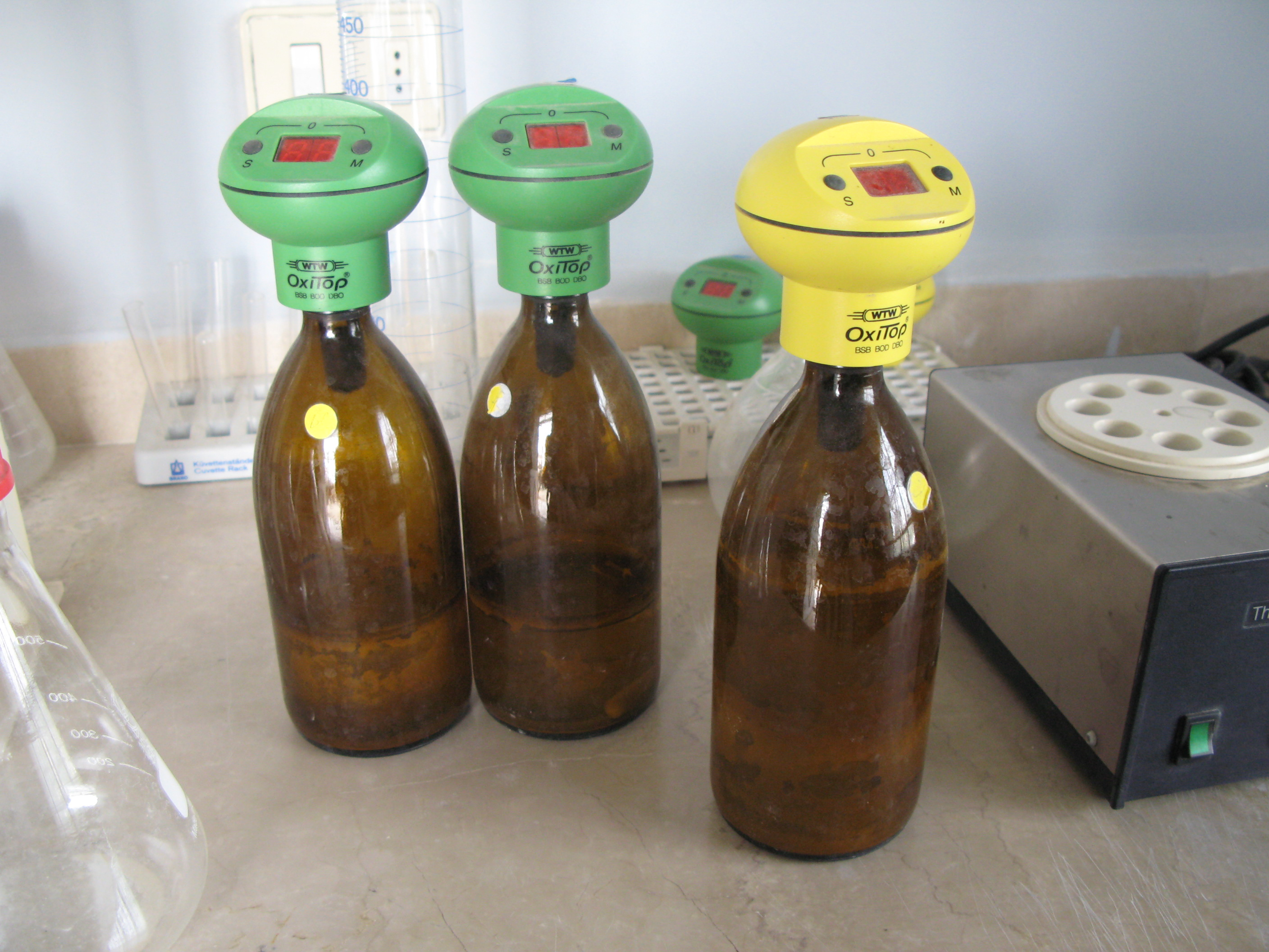 Syria - constructed wetland Haran-Al-Awamied (near Damascus)